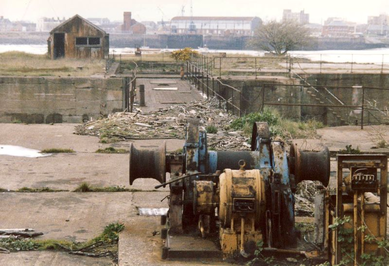 Cardiff docks in decline in 1990, Porth Teigr, Cardiff, Wales